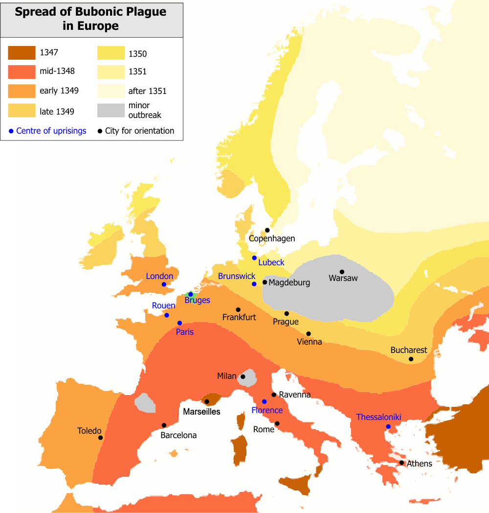 Map showing the spread of "black death" from Asia towards Europe